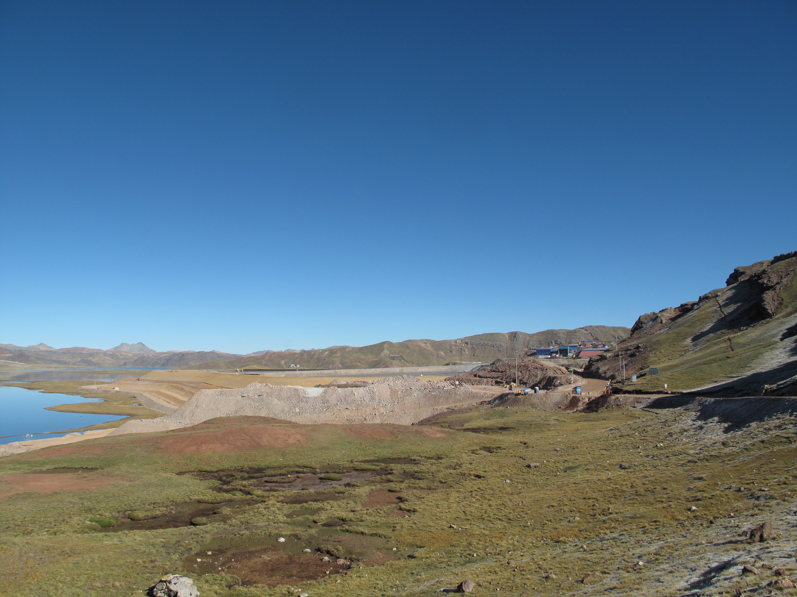 Animón Mine (reight) with tailings pond (center). Looking west.